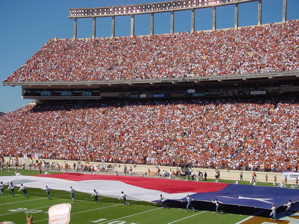 The World's Largest Texas Flag in the Darrell K. Royal-Texas Memorial Stadium during a Longhorn football game.